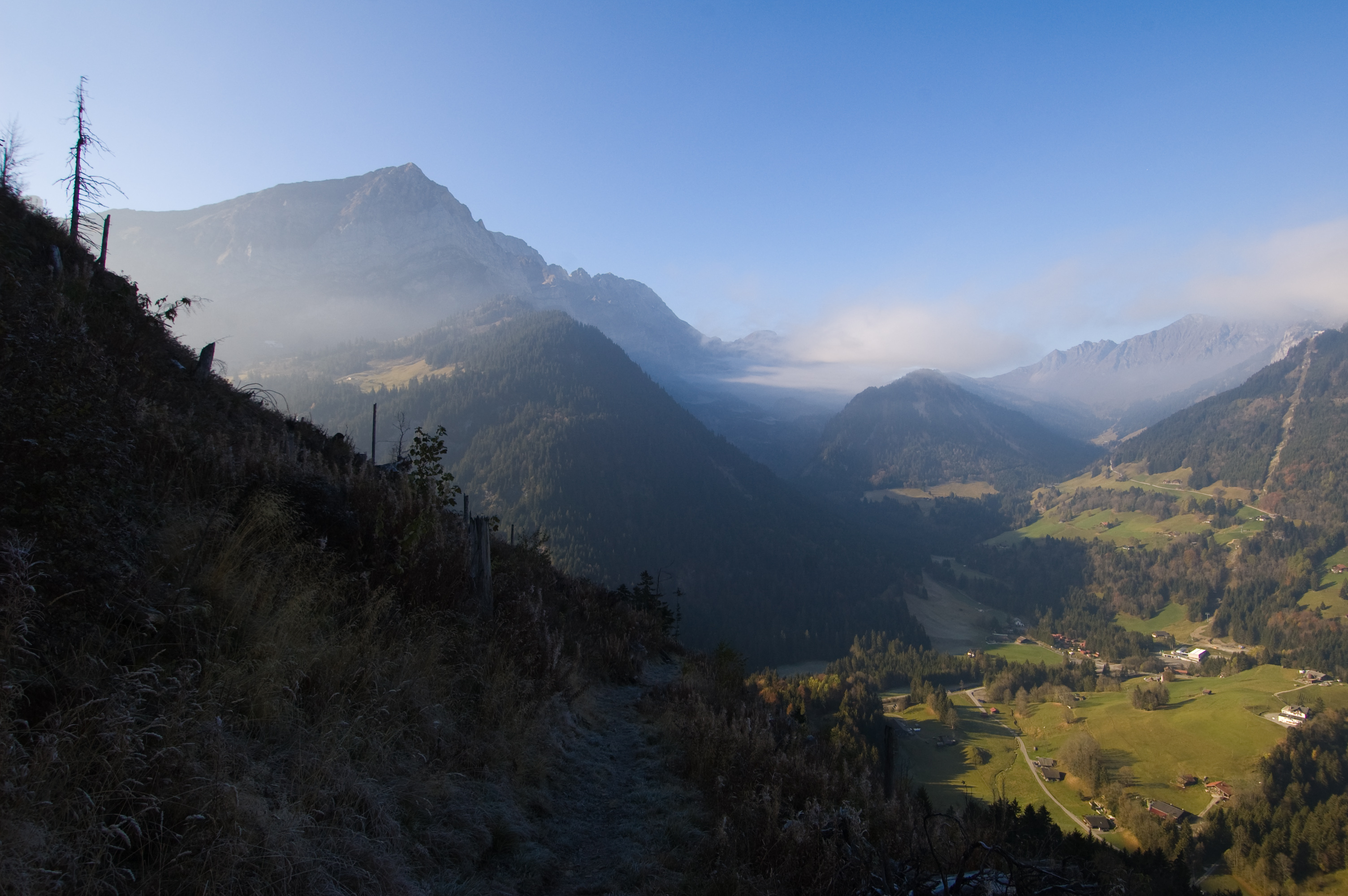 View from the slopes of the Dents du Midi at the head of the Swiss Val d'Illiez. View toward Champéry and Val d'Illiez